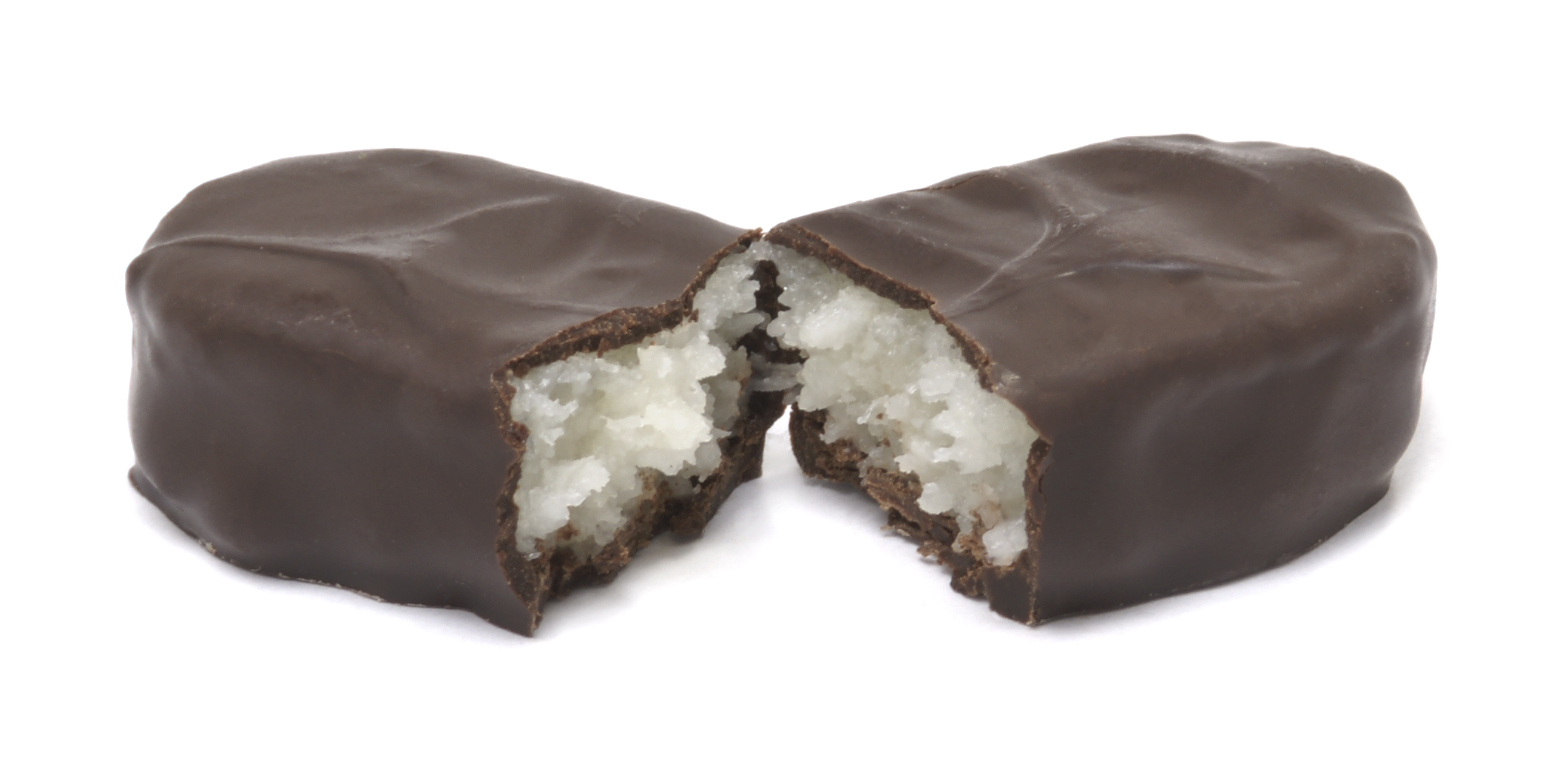 A Mounds candy bar broken in half. Made of dark chocolate and coconut.